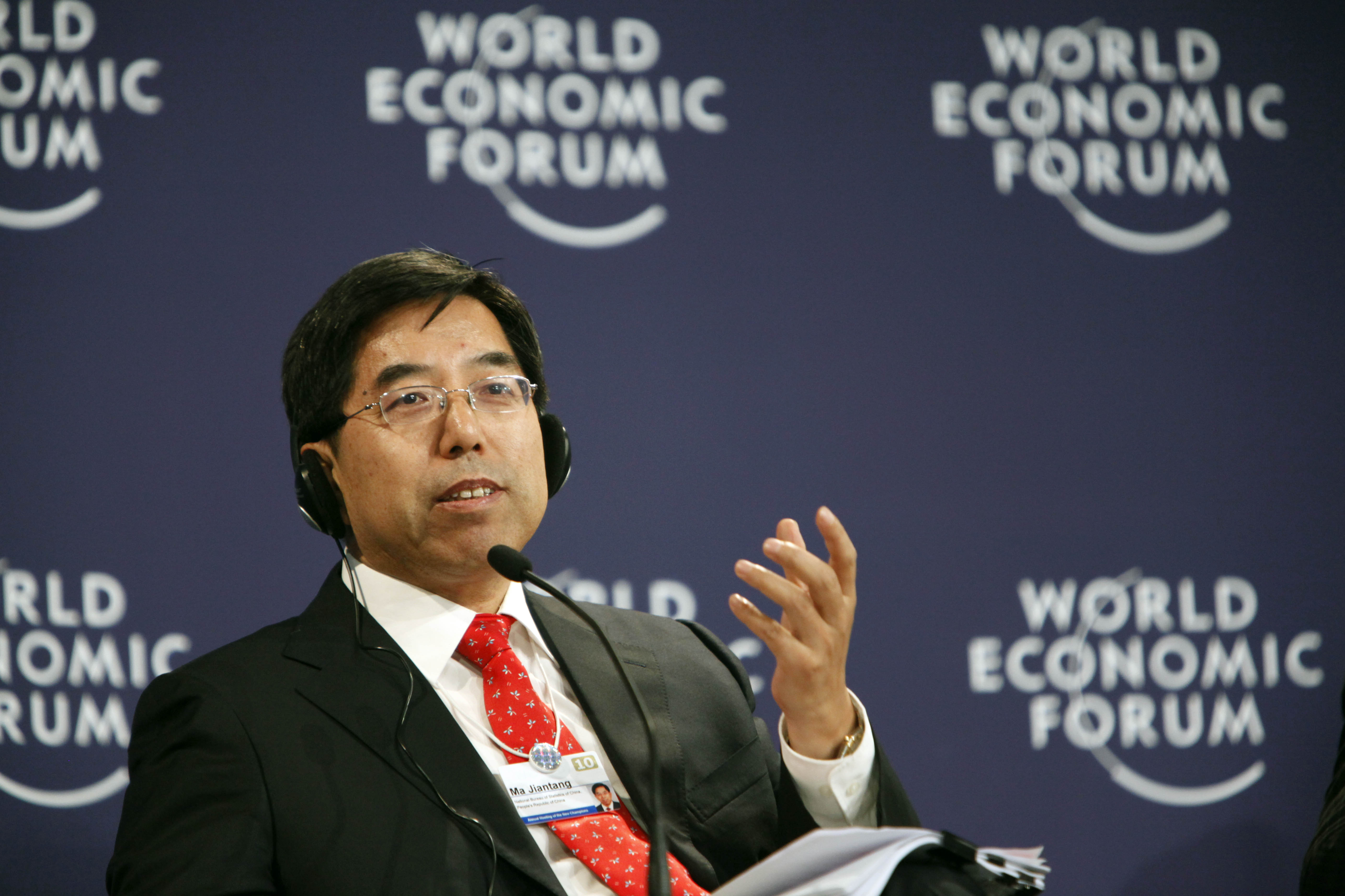 TIANJIN/CHINA 15SEP10 - Ma Jiantang, Commissioner, National Bureau of Statistics of China, speaks during the "Global Economic Outlook" session at the Annual Meeting of the New Champions in Tianjin, China, September 15, 2010. Copyright World Economic Forum ( Shen